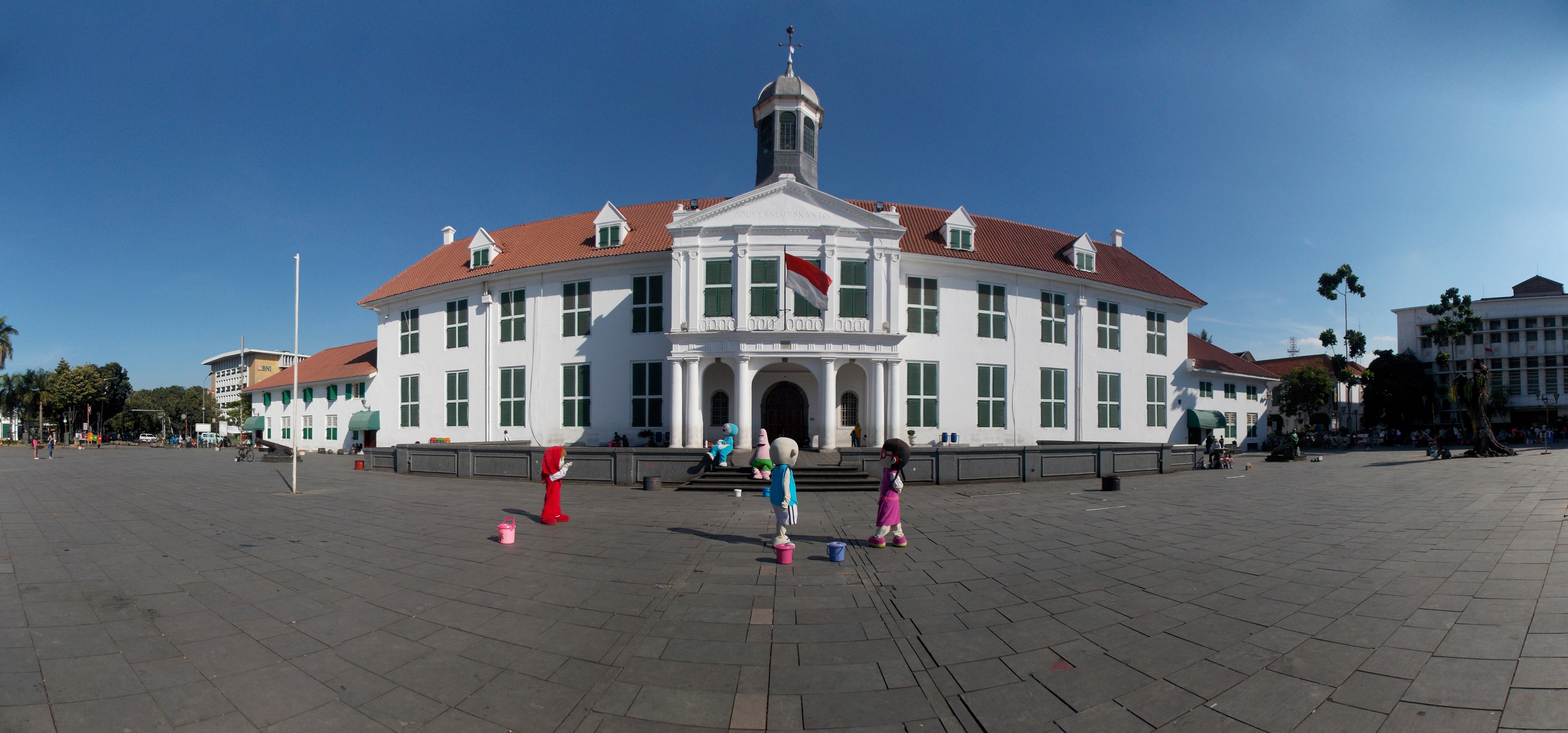 A panoramic view of Jakarta Museum of History, also known as Fatahillah Museum.